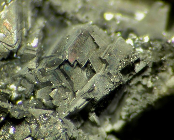 Safflorite Locality: Alberoda, Schlema-Hartenstein District, Erzgebirge, Saxony, Germany Field of view 8 mm. Specimen and photo Leon Hupperichs.